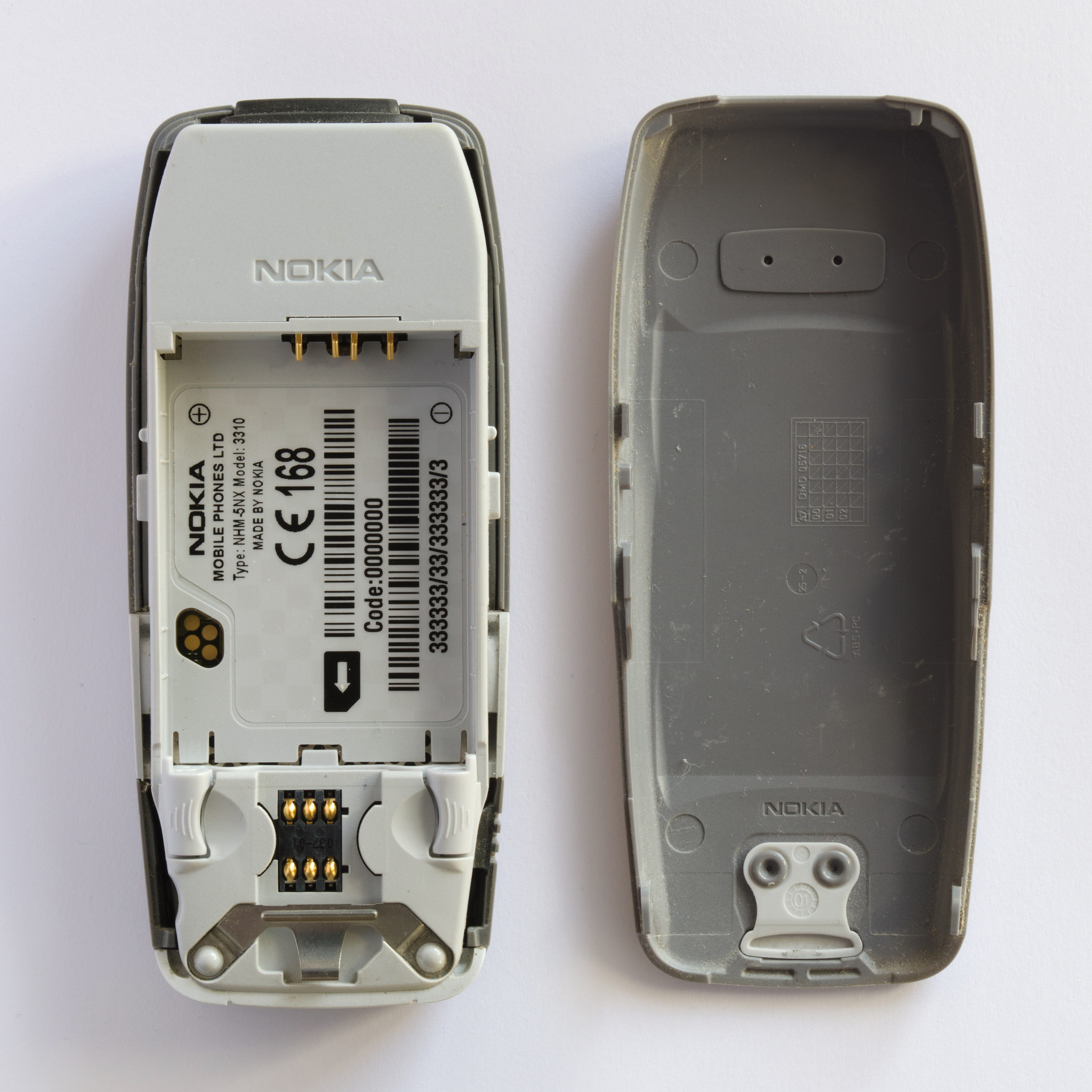 Inside a Nokia 3310 mobile phone in its original grey case, without battery and SIM, alongside back panel. Bought in June 2001.